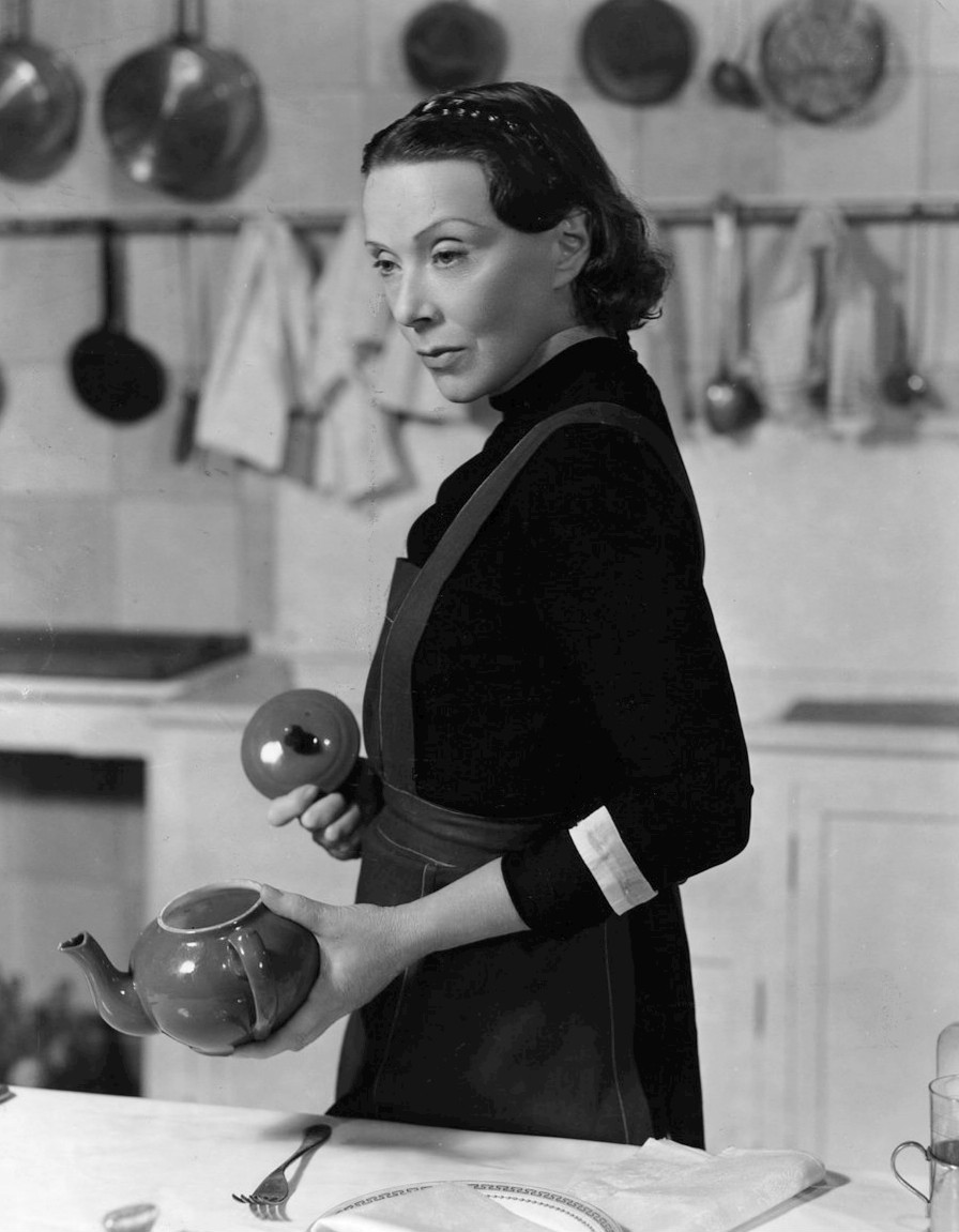 Publicity photo of Eugenie Leontovich as Tatiana in the play Tovarich, cropped from scanned print